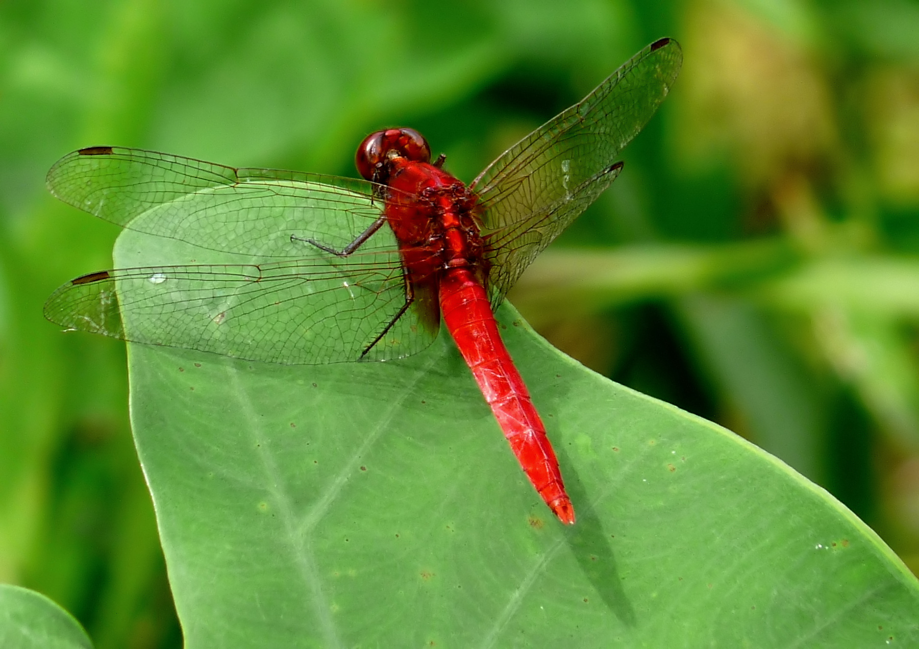 Rufous Marsh Glider (Rhodothemis rufa), male Rhodothemis rufa, Rufous Marsh Glider, is a large red dragonfly with transparent wings. Both Rhodothemis rufa and Crocothemis servilia have red eyes but R. rufa lacks the black strip on the dorsal of abdomen. Further, they prefer to perch on leaves with wings wide open, hanging vertically; rarely perch straight on a bare twig. Although it is difficult to distinguish the males from other red dragonflies, the females can be easily distinguishable by their mid-dorsal yellow stripe. This yellowish streak runs from occipital triangle through pro-thorax down to abdomen segment 6. They have a unique yellow strip on the upper frons too. Taken at Kadavoor, Kerala, India.